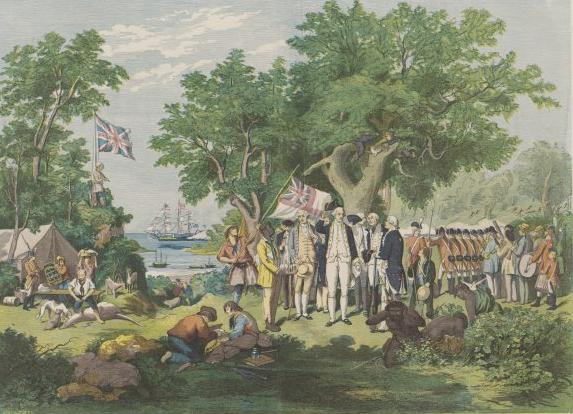 Coloured print by Samuel Calvert (1828-1913), depicting Captain James Cook proclaiming sovereignty over the continent of Australia from the shore of Possession Island, Torres Strait in 1770. First published in the Illustrated Sydney News, December 1865. Erroneously depicts the Union Jack, which was not adopted by Great Britain until 1801.